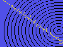 Video processor limits in MSX home computer